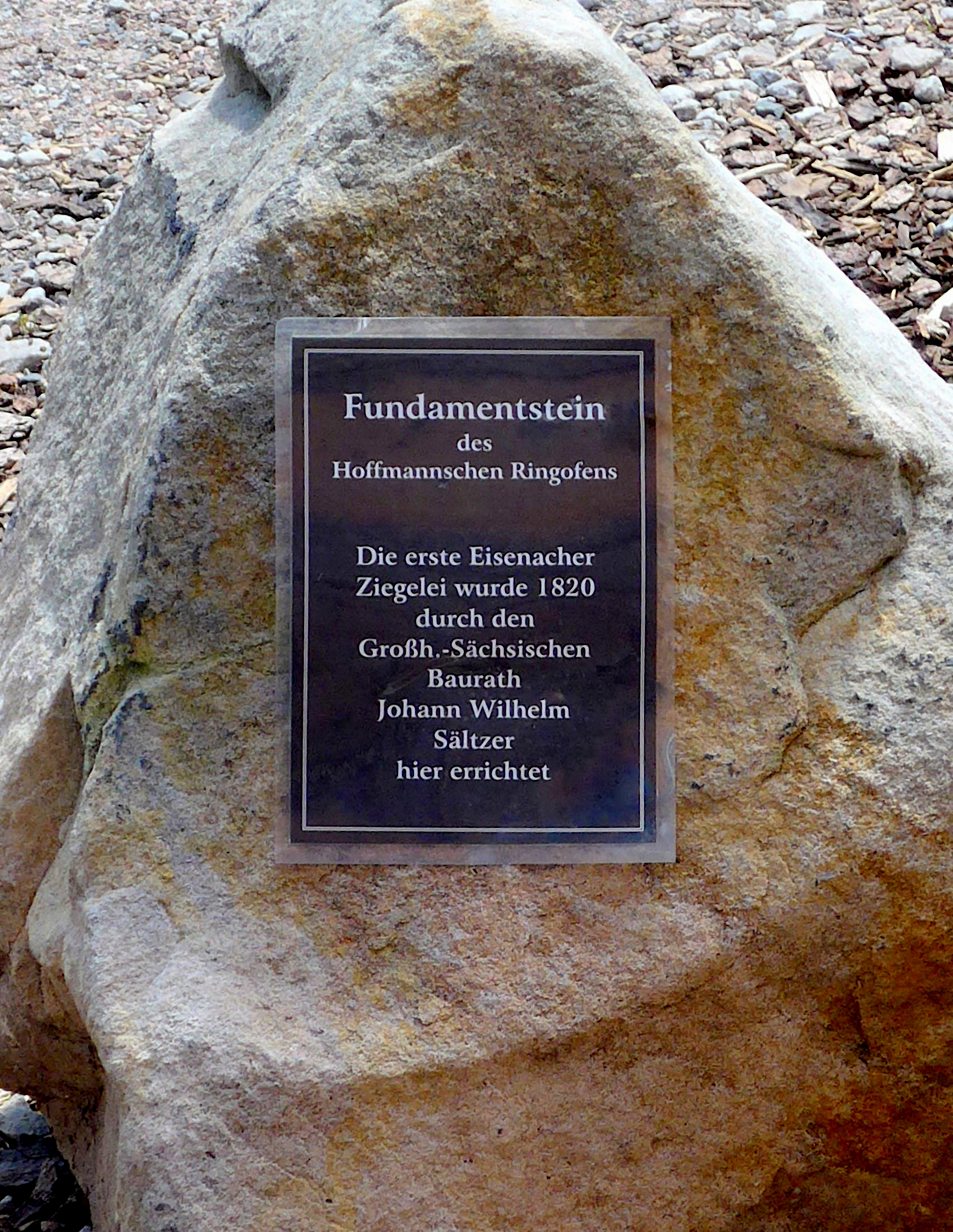 Preserved foundation stone of the Hoffmann ring kiln in Eisenach, Thuringia, today placed as a memorial stone with sign at the former access road to the Sältzer brickworks at Marienstraße 21 in Eisenach